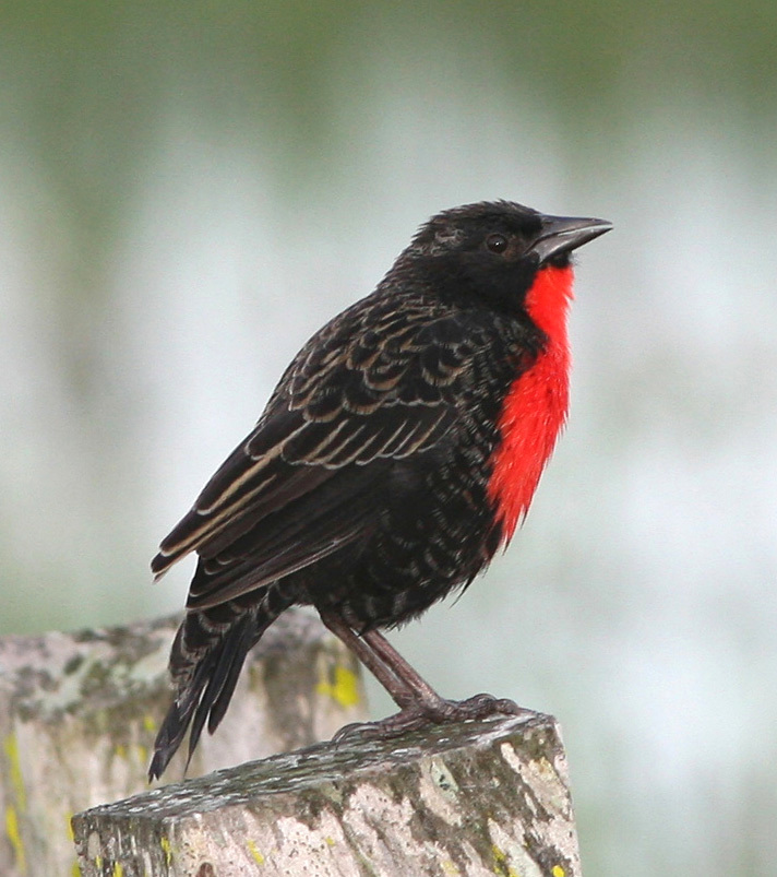 Red-breasted Blackbird, shot in Los Llanos, Venezuela